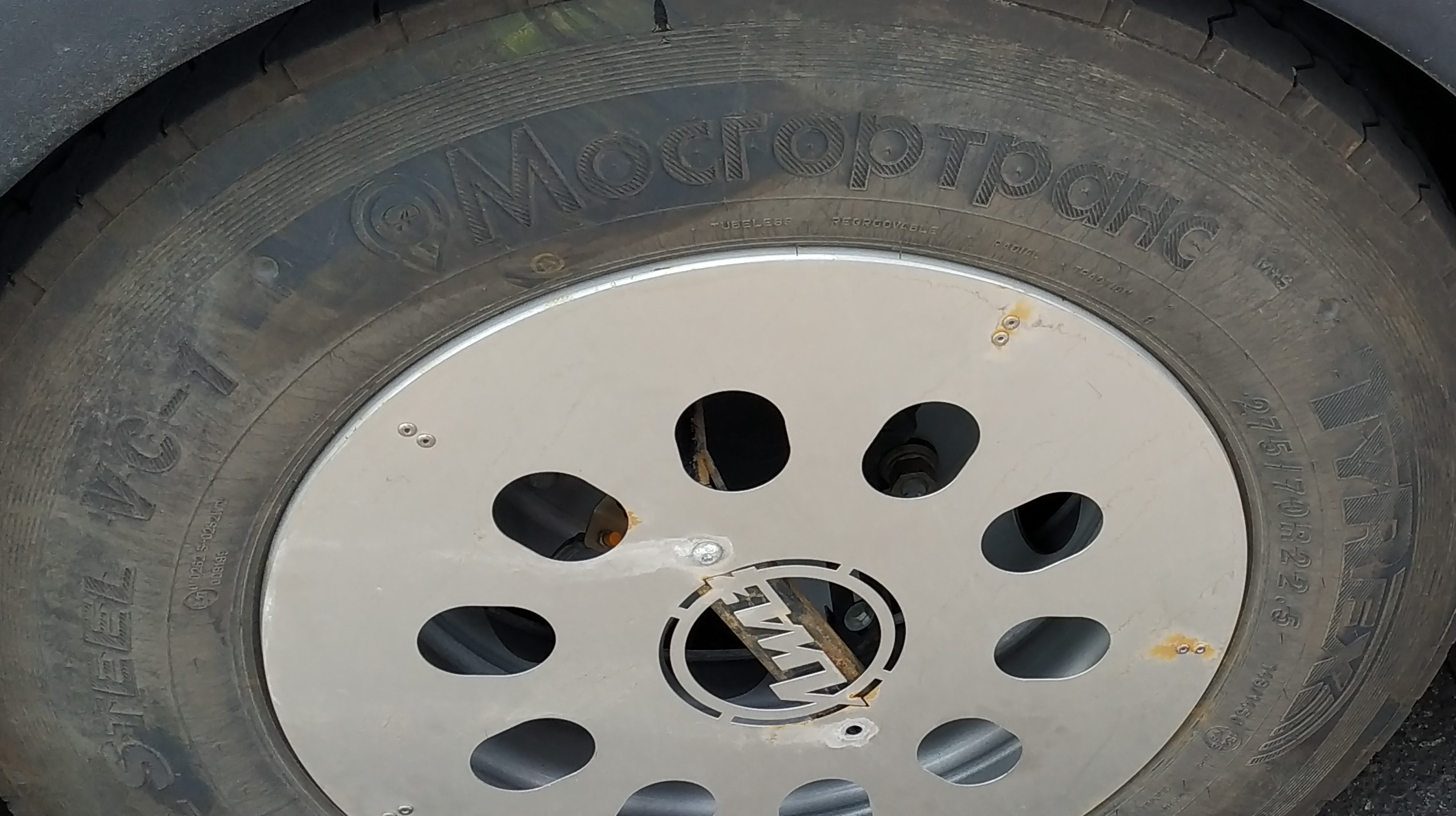 Mosgortrans labeled tyres